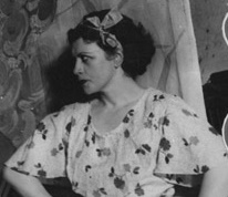 Concepción Sánchez- actriz